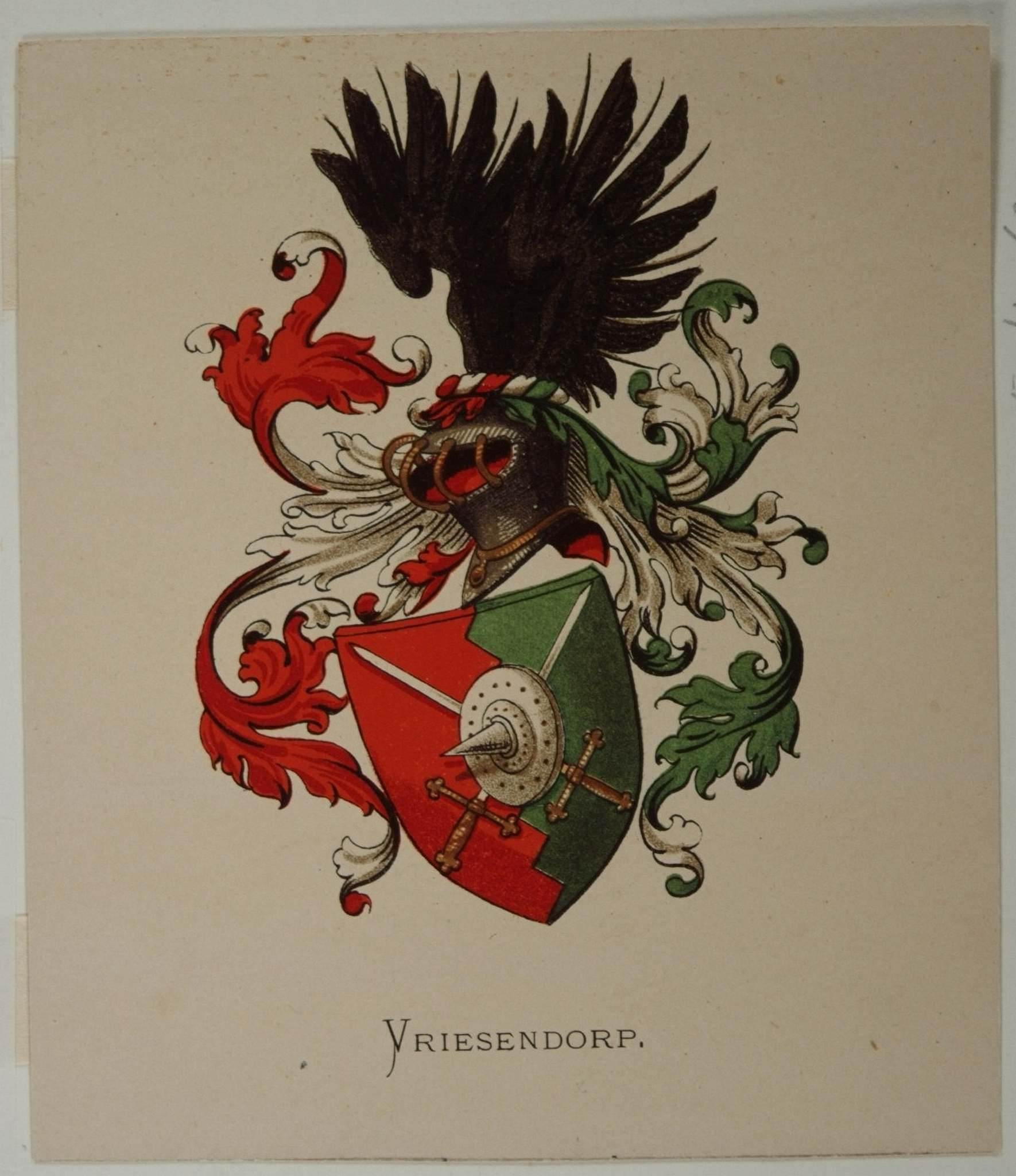 Familiewapen van de familie Vriesendorp